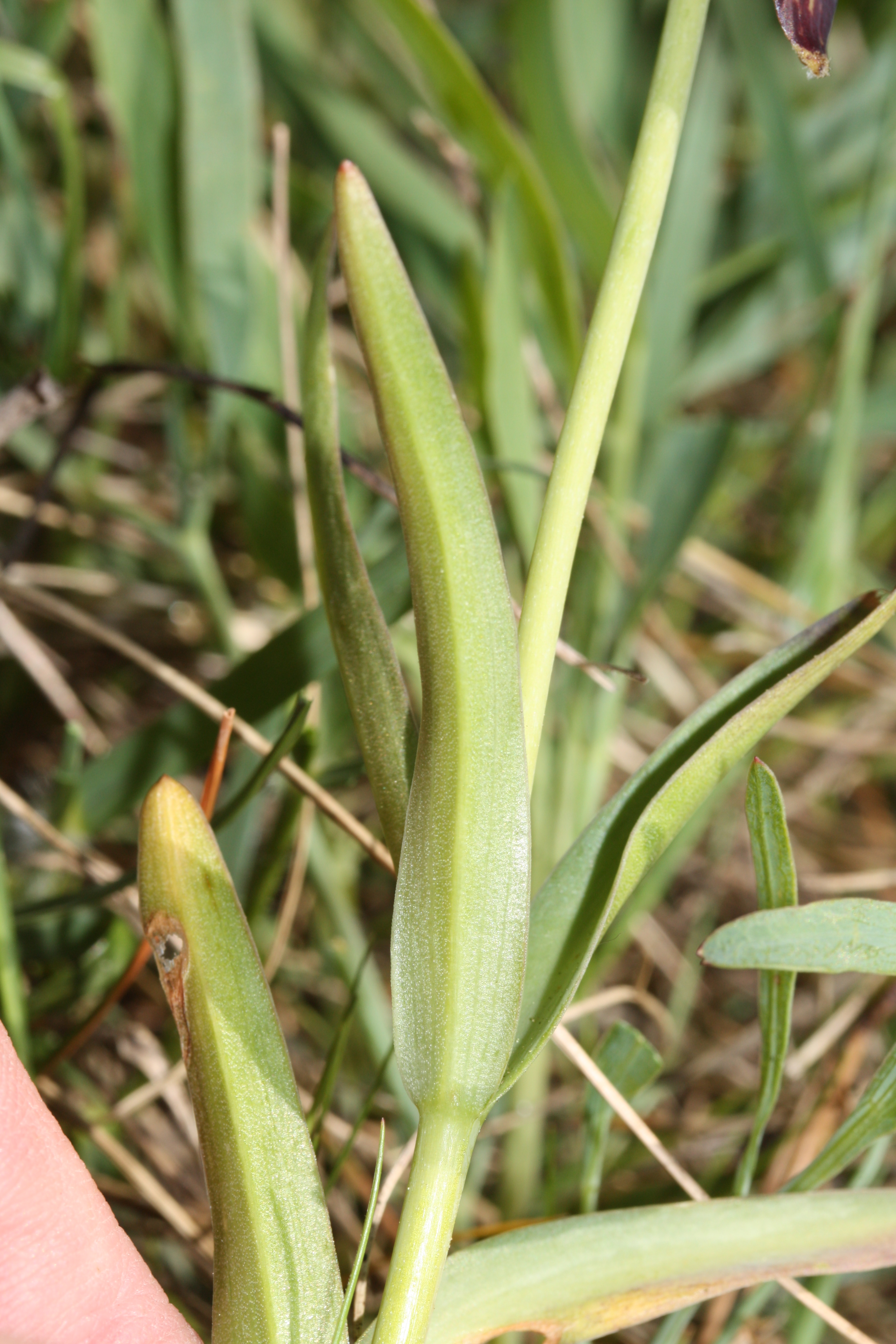 Checker Lily, Chocolate Lily; auth. (Schultes) Sealy